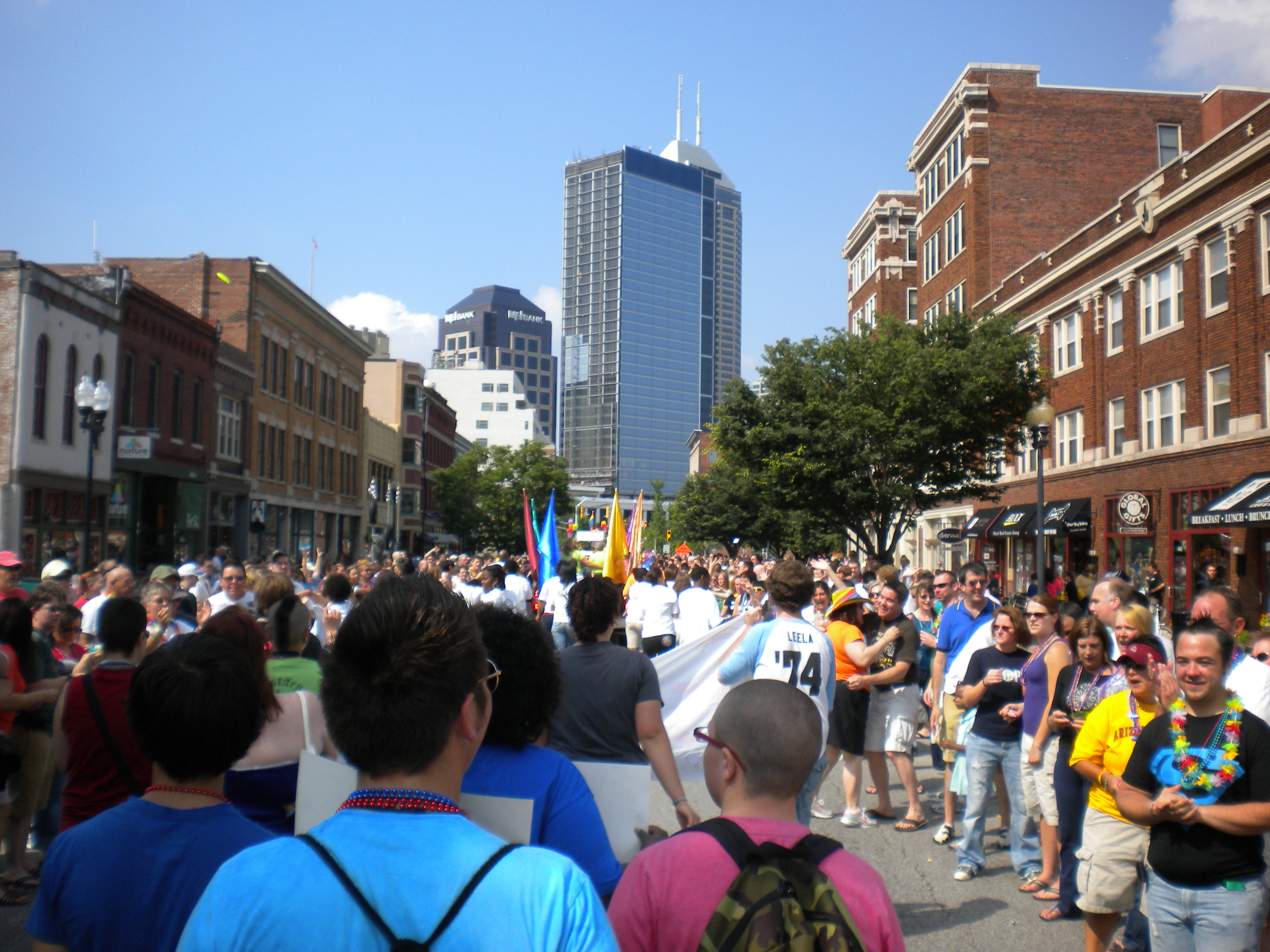 Indianapolis Pride Parade 2009. Photo taken by user: kcflood